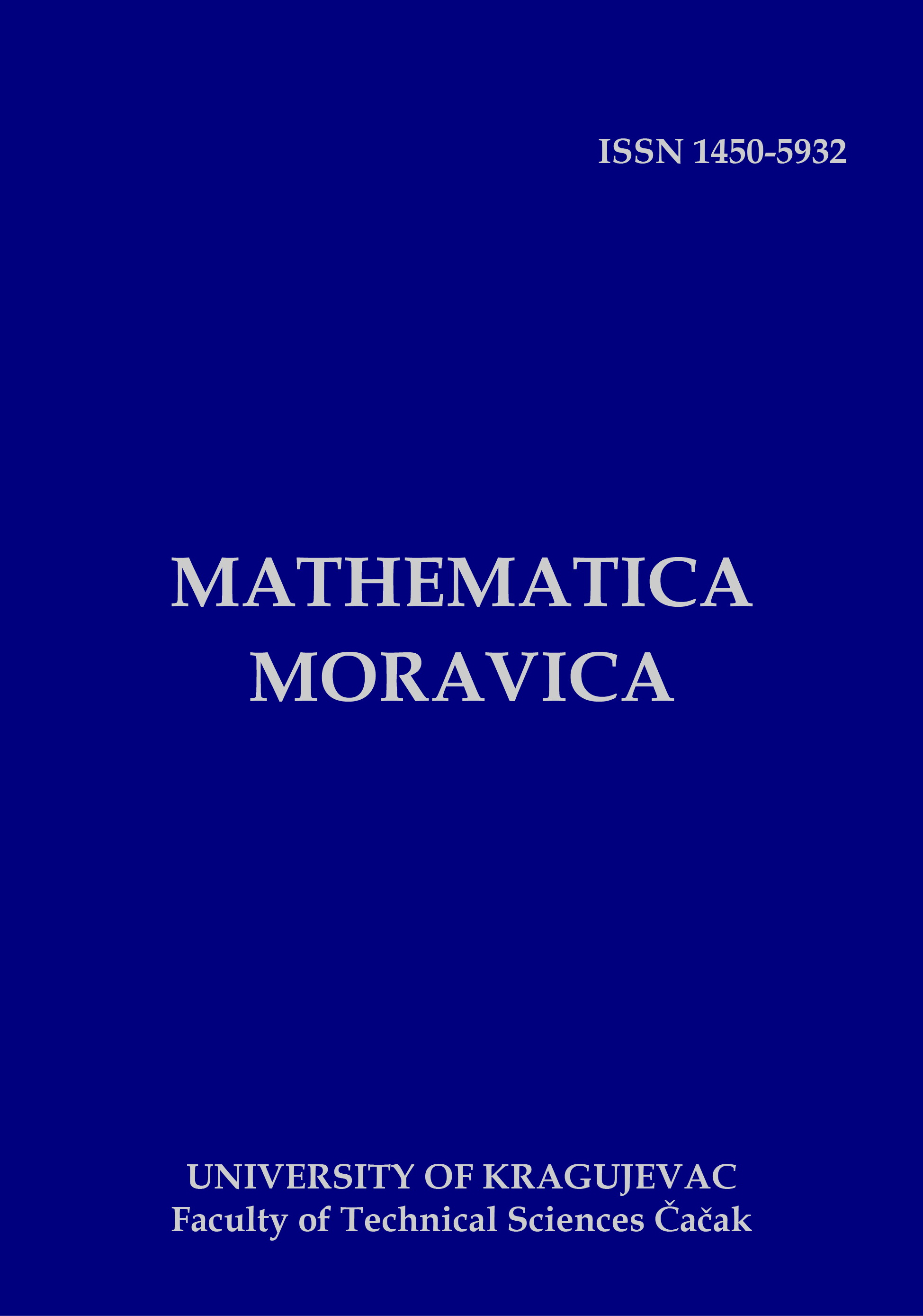 Cover of journal Mathematica Moravica, Cacak, Serbia